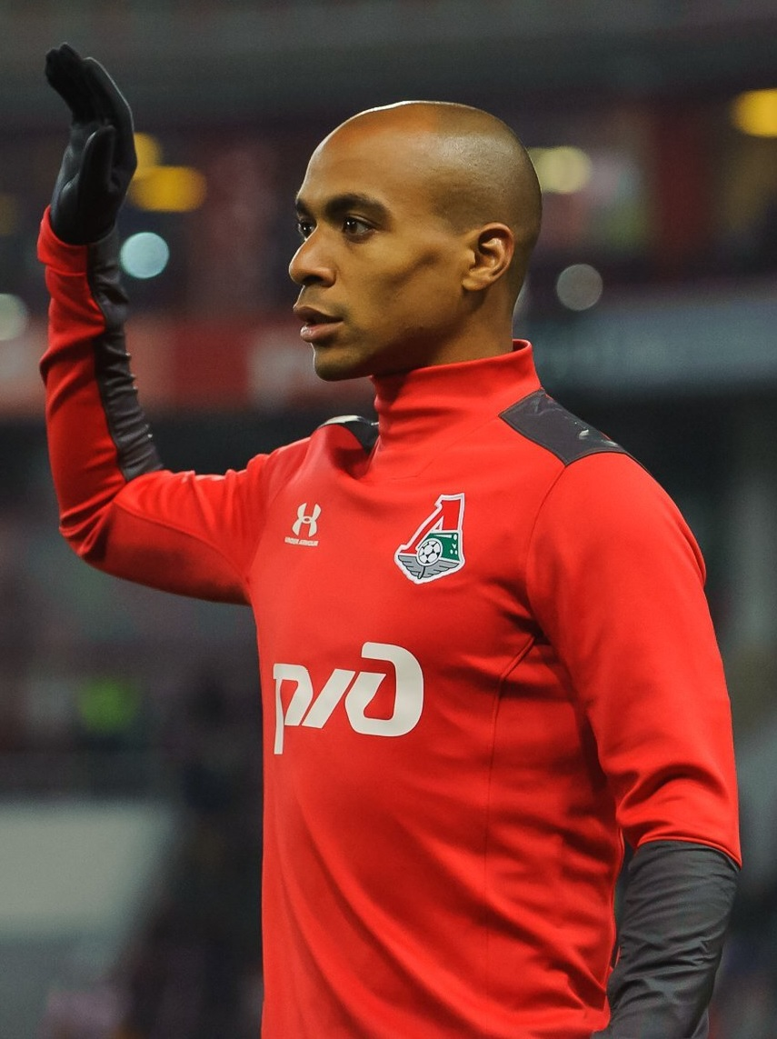 João Mário with FC Lokomotiv Moscow before the game against FC Zenit Saint Petersburg.